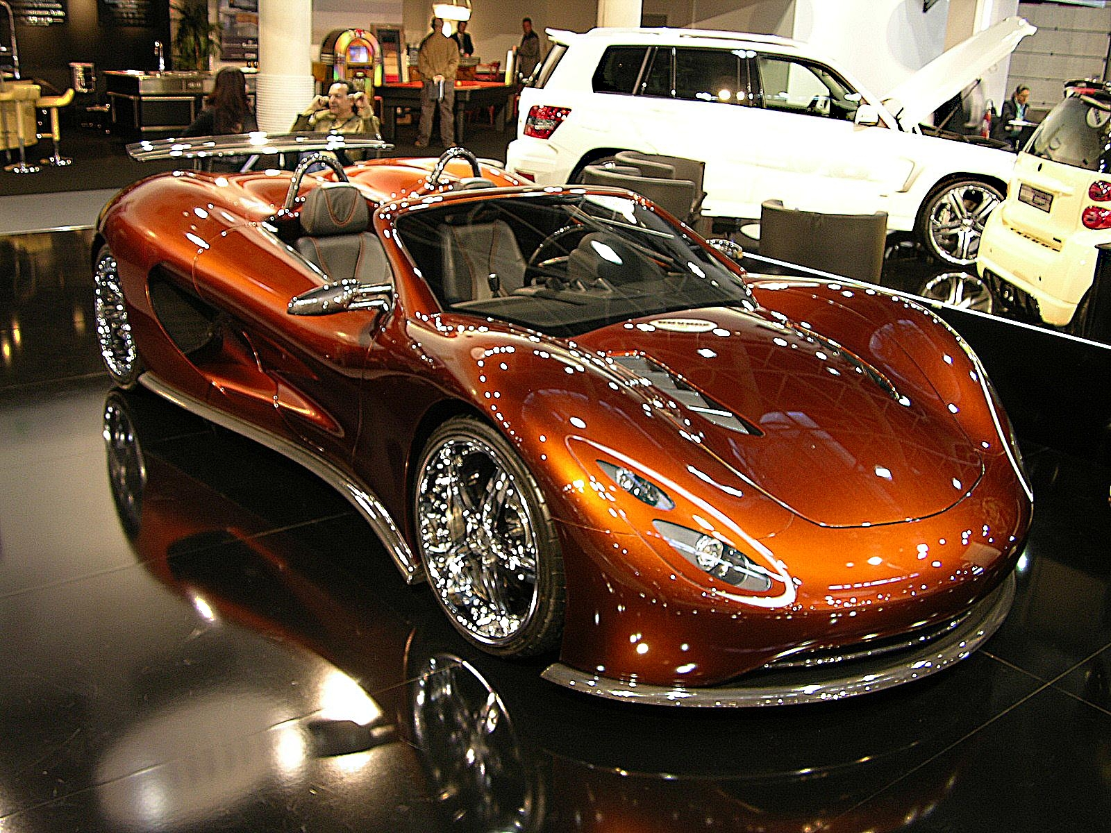 Picture from front of a Ronn Scorpion.